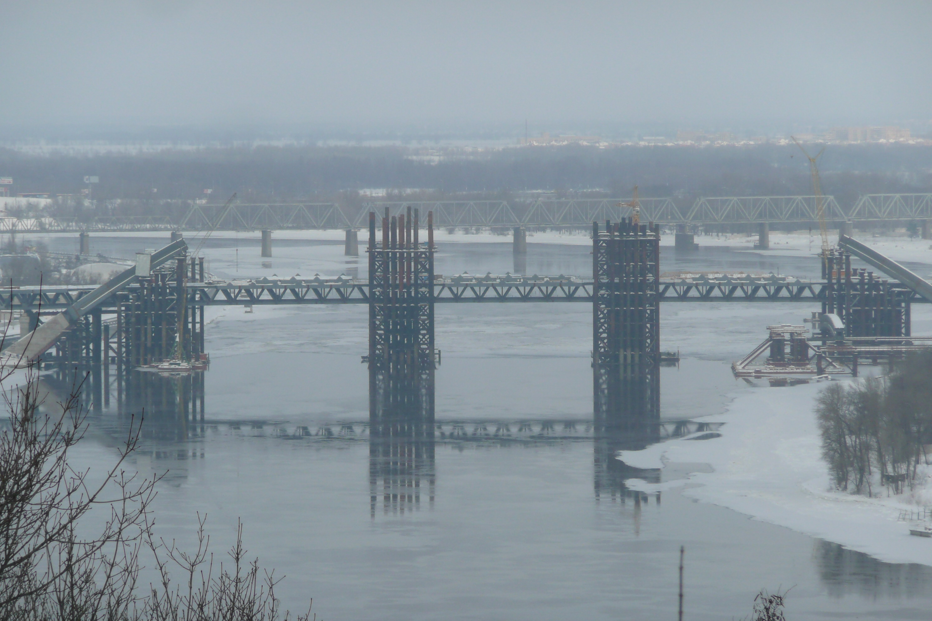 Kiev